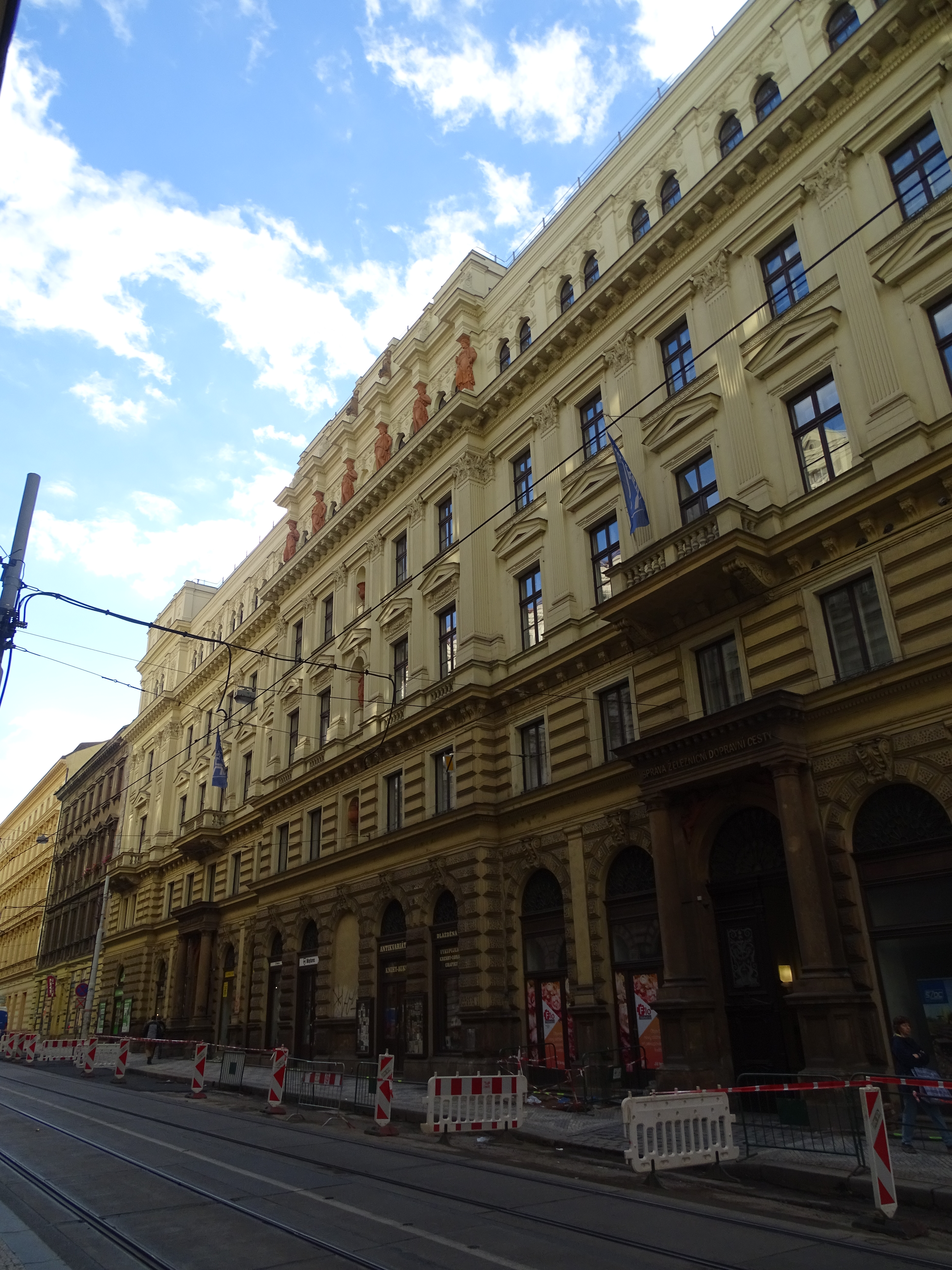 Prague-New Town, Czechia, Dlážděná 1003/7+5.